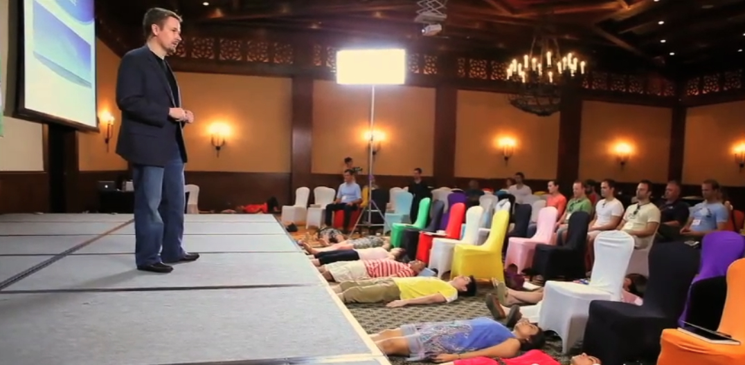 Steve G. Jones Clinical Hypnotherapist at Awesomeness Fest 2010.